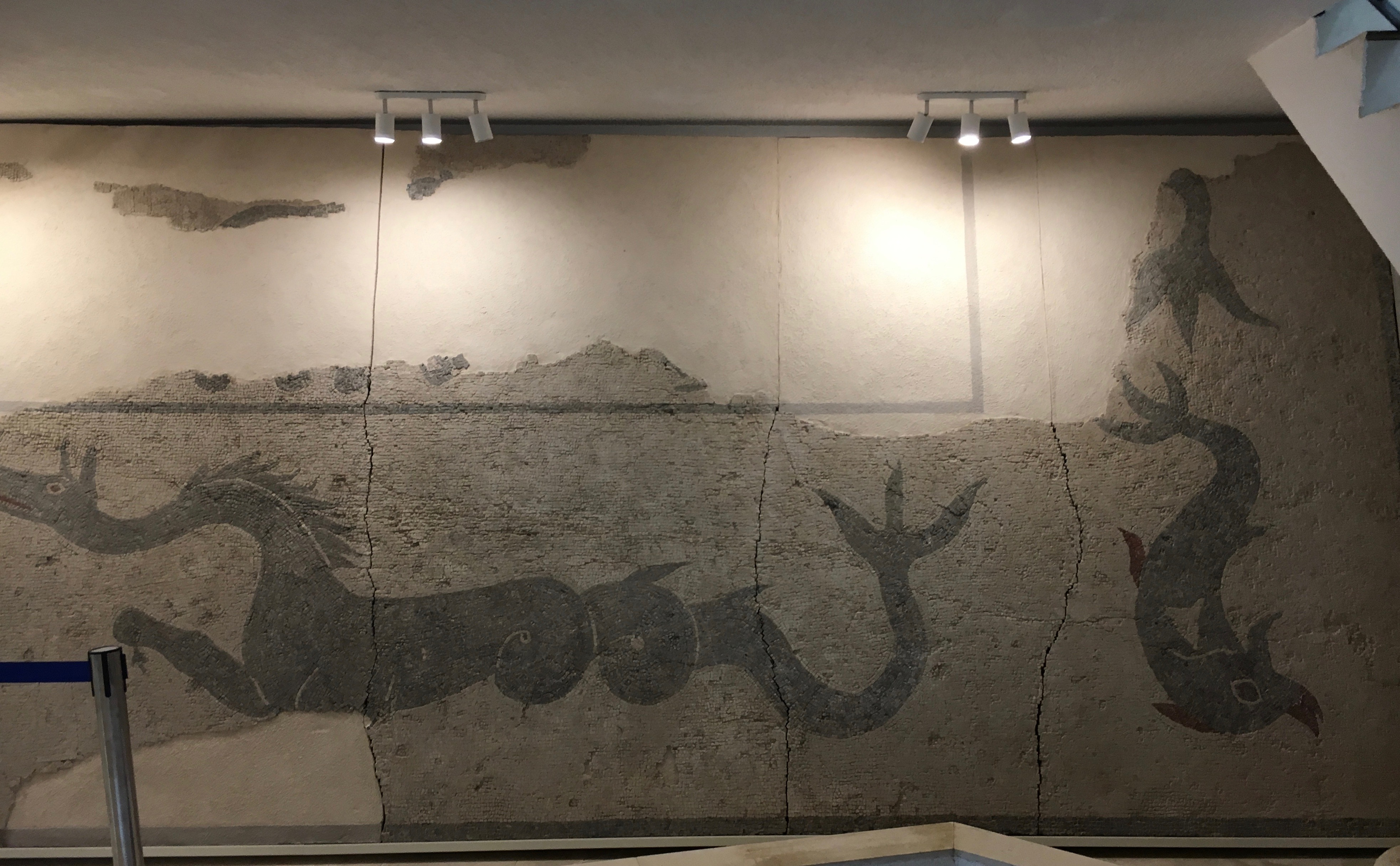 The remaining fragments of Roman mosaic excavated in Budva, Montenegro and on display in Budva archeological museum.